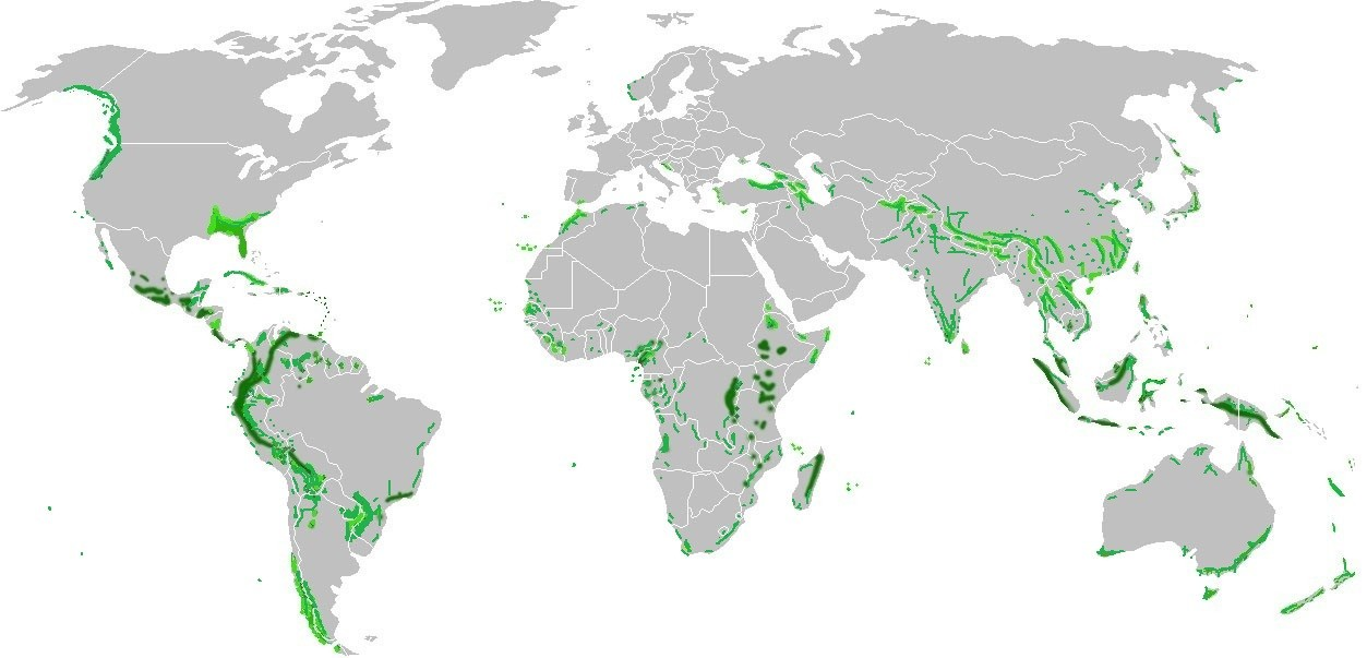 This file was made by Malene Thyssen. Please credit this: Malene Thyssen, An email to malene at mtfoto.dk would be appreciated too. Source: Image:BlankMap-World.png by User:Vardion and User:E Pluribus Anthony Philip Bubb, Ian May, Lera Miles and Jeff Sayer: UNEP and WCMC: Cloud Forest Agenda poster